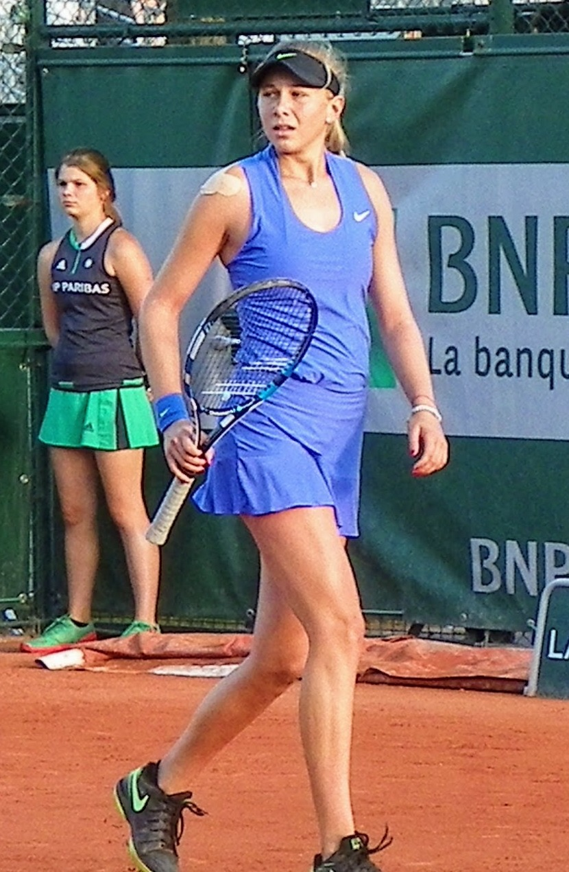 Amanda Anisimova at 2017 French Open